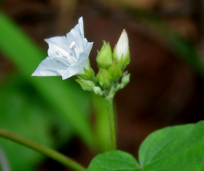 Jacquemontia paniculata (Burm.f.) Hallier f. at Ananthagiri Hills, in Rangareddy district of Andhra Pradesh, India.